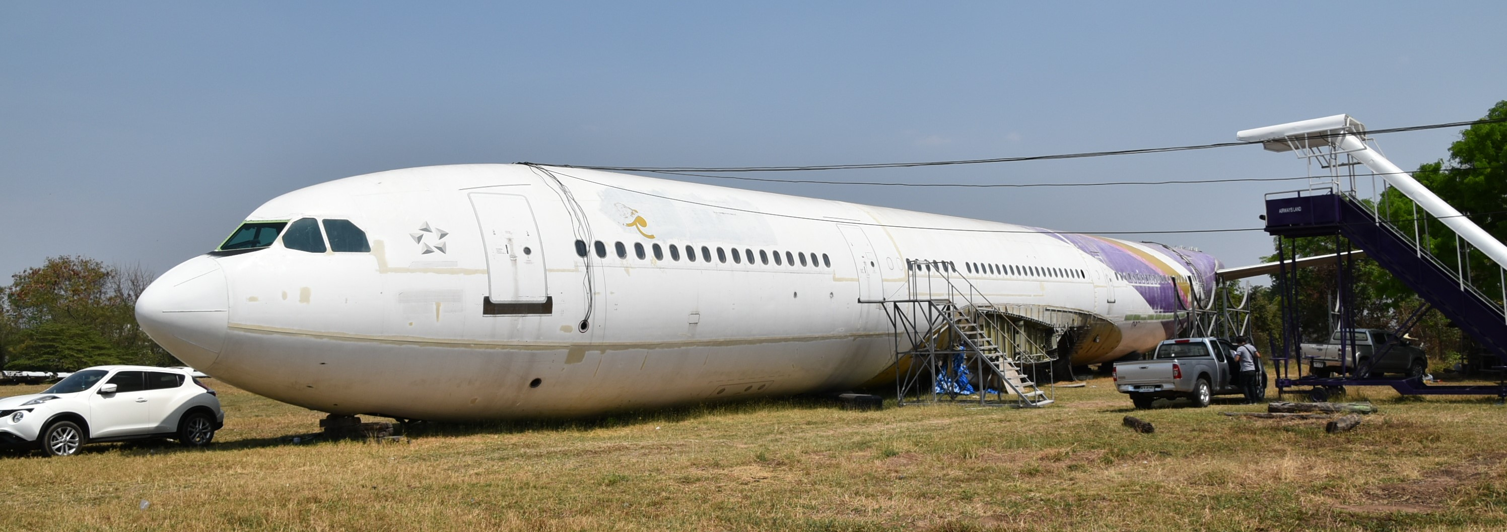 Fuselage section of former Thai Airways International, Airbus A330 at Sida District, Nakhon Rachasima province, Thailand, 26/02/18. The aircraft was involved in a runway excursion at Bangkok-BKK on 08/09/13 & subsequently, never flew again. Was stored at BKK until a few months ago when she was bought & transported to this location,(Co-Ordinates 15.580641, 102.556676) Work is in progress to turn it into a museum along with a coffee shop.